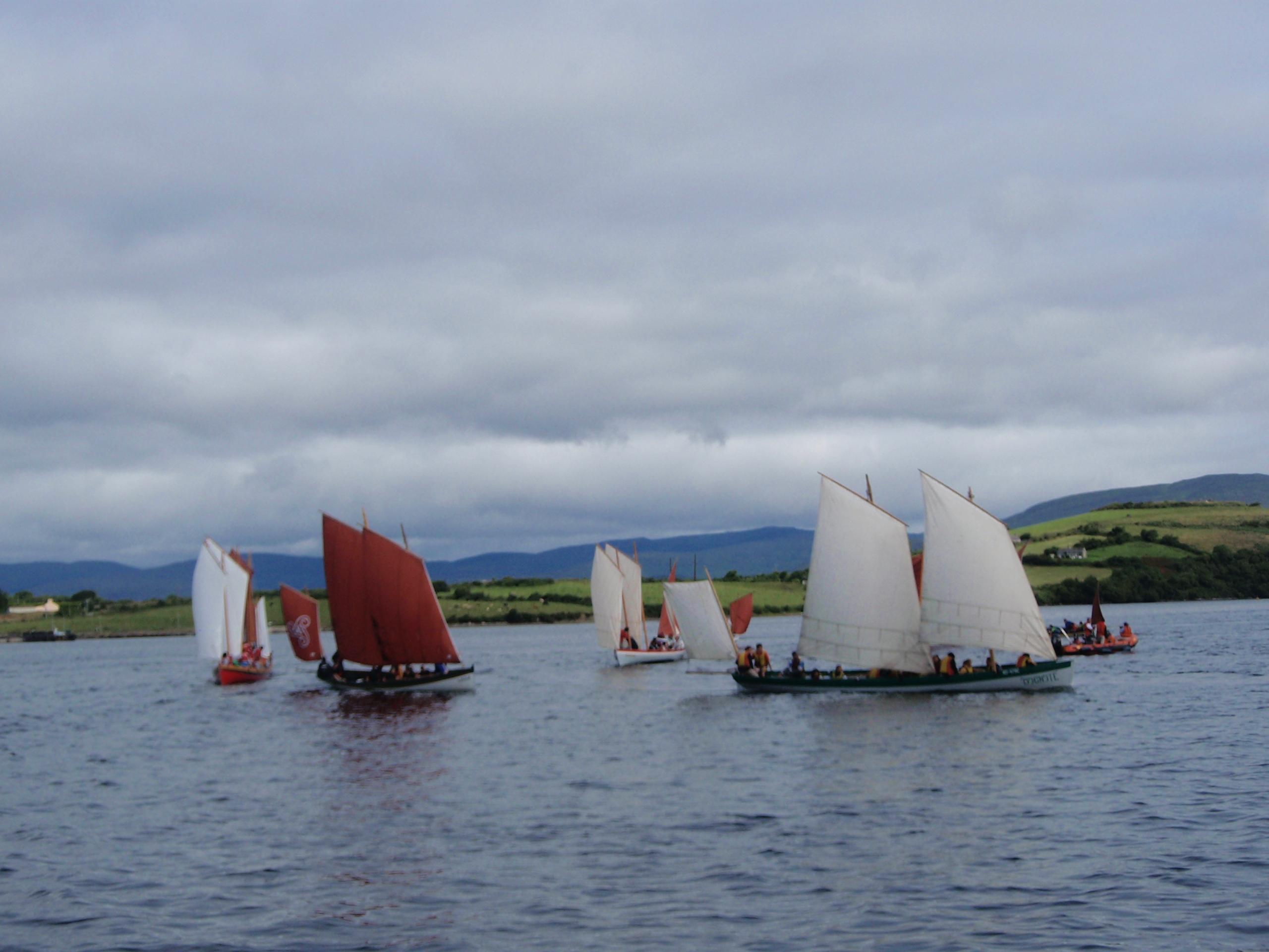 Yoles of Bantry competing in the 2012 Bantry Contest of Seamanship